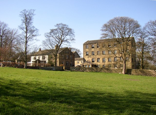 Barker Royde Farm, Southowram Evidently a mill built next to a farm, but strangely not named as a mill on the old OS maps. It was built around 1849 to the order of William Barber, grandfather of architect William Swinden Barber and used as a mill for manufacturing carding equipment. It was later used as a store for Marshall's Quarry. It was bought by the owner of the farm in the 1970s and used for storage. It is now apartments.